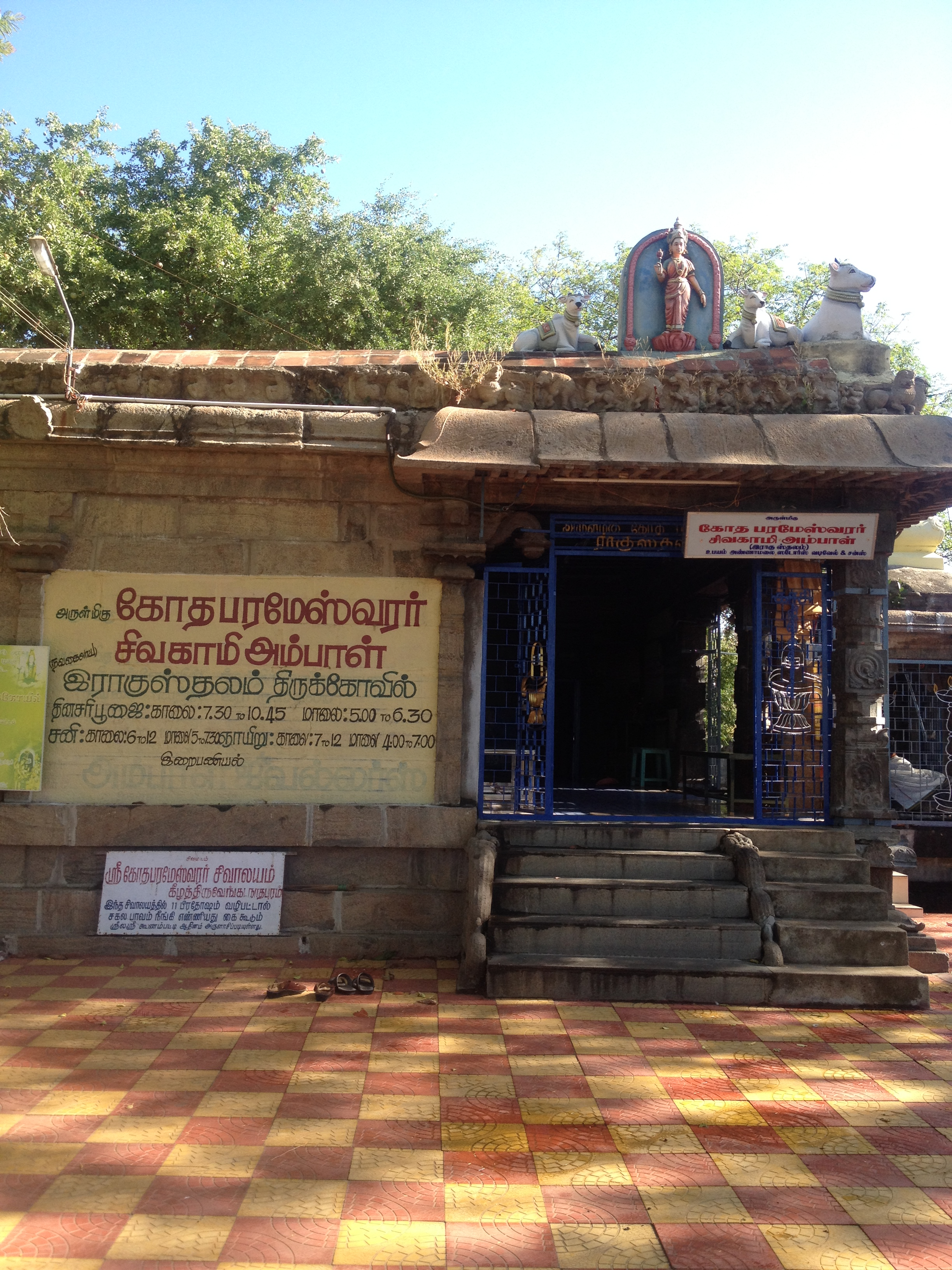 Kunnathur Kotha parameswarar temple